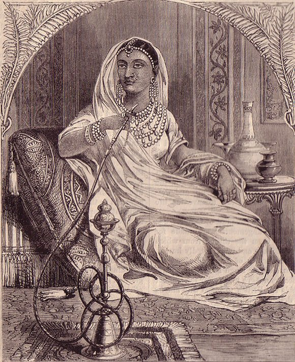 The Ranee of Jhansi